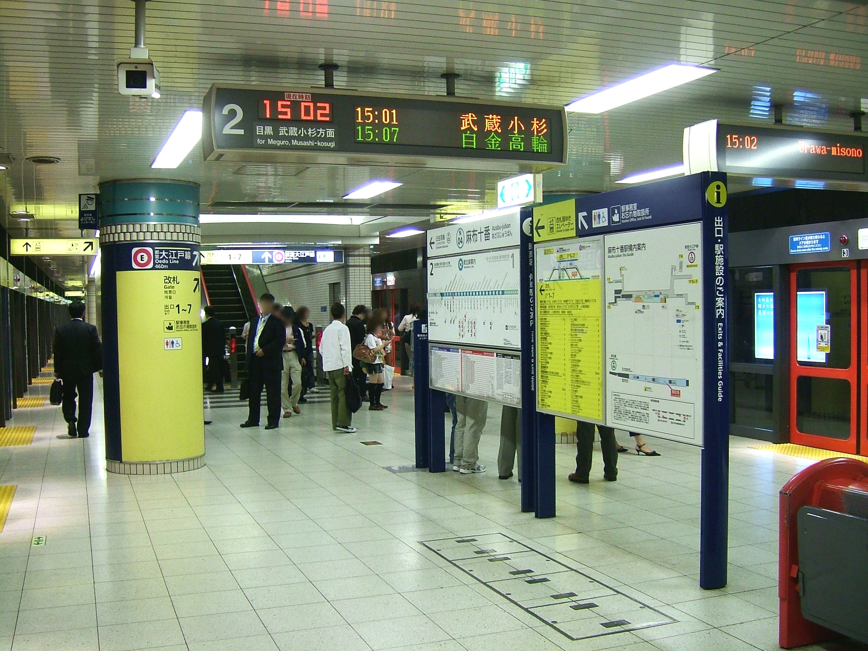 The platform at Azabu-Jūban Station on the Tokyo Metro Namboku Line